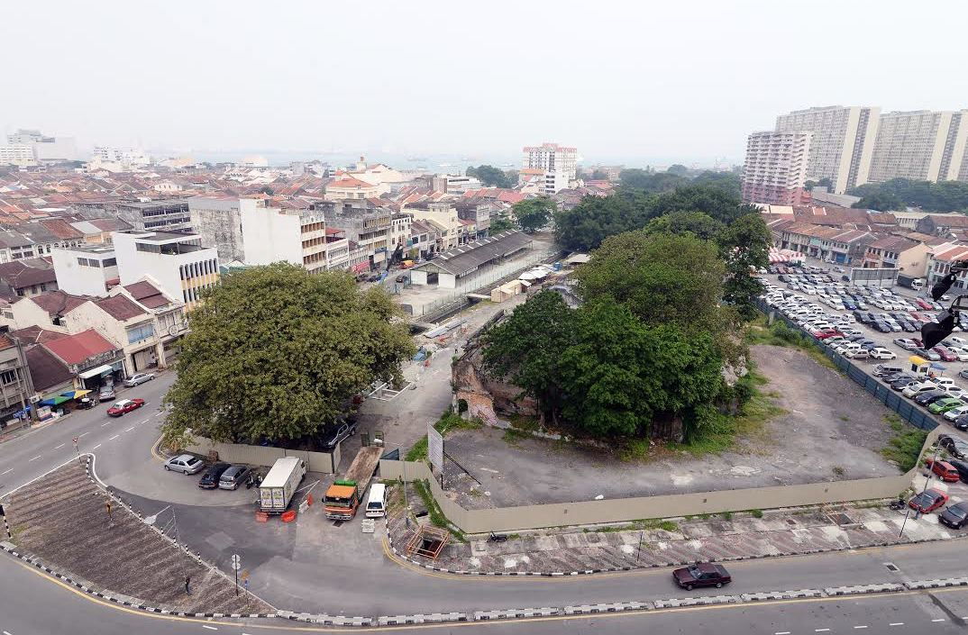 Former Sia Boey Market in George Town, Penang